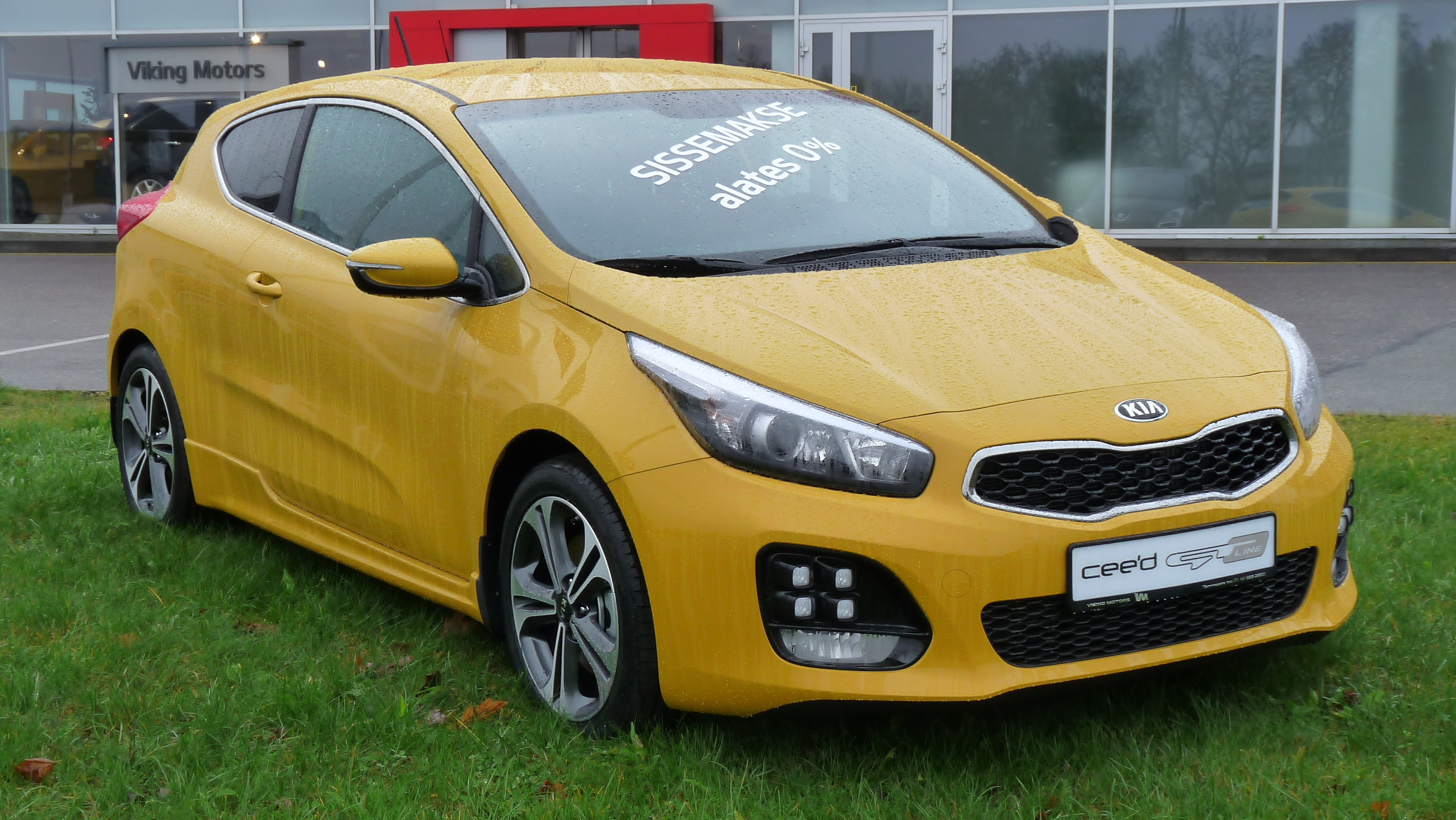 Kia automobile in Tallinn, Estonia